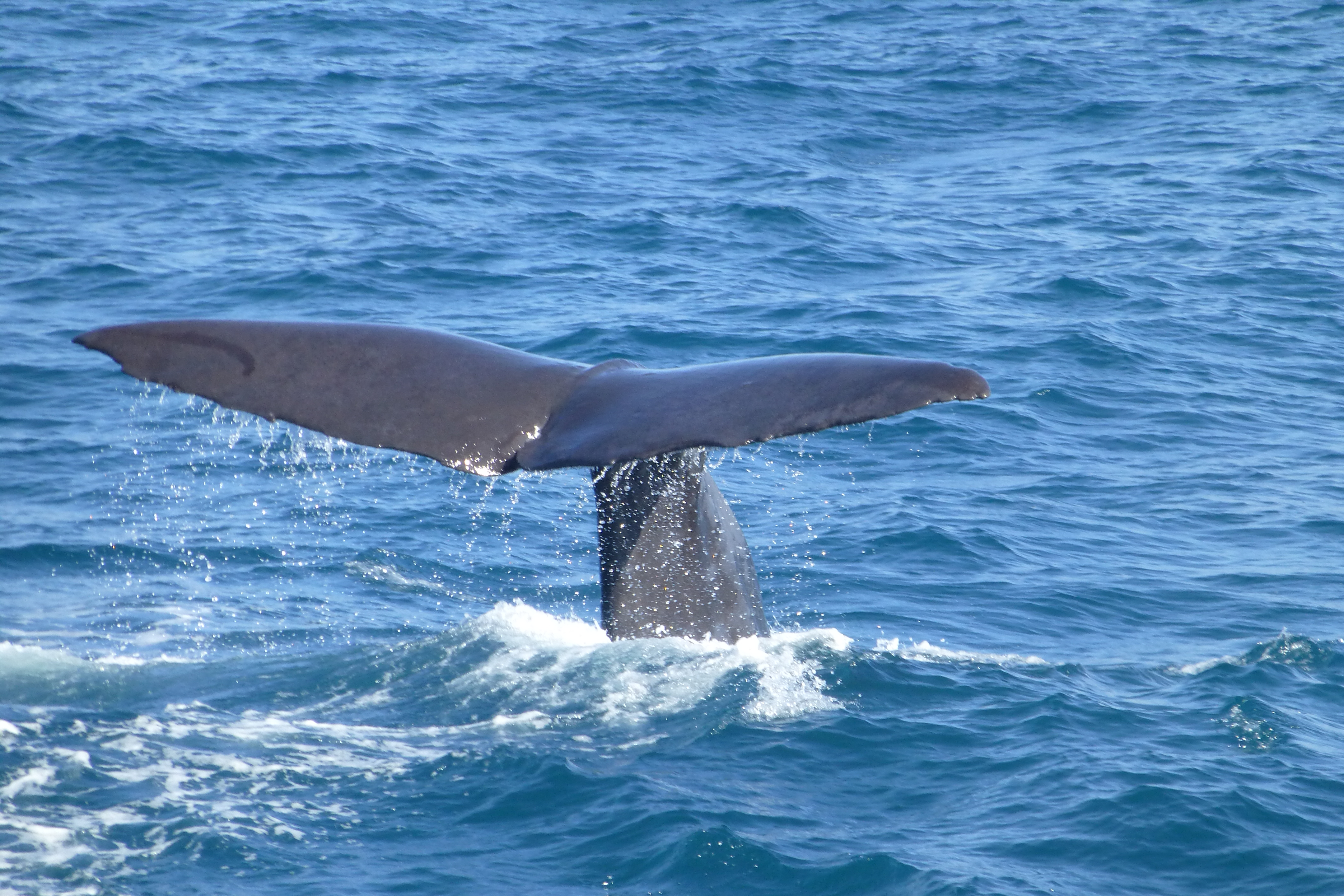 Sperm whale (Physeter macrocephalus) at Kaikoura, New Zealand